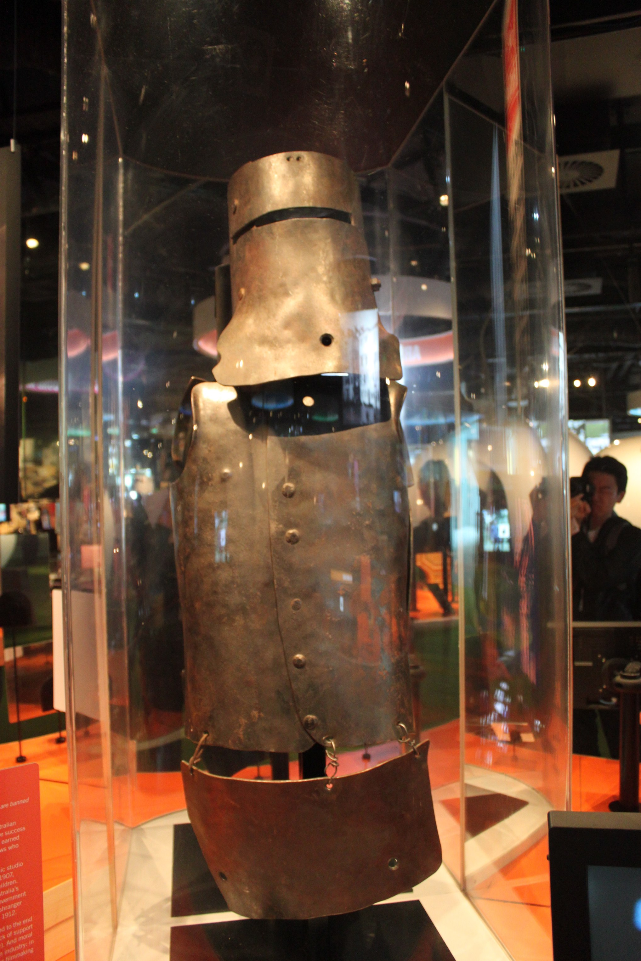 Armour from the film Ned Kelly (2003) displayed at the Australian Centre for the Moving Image, Melbourne, Australia.